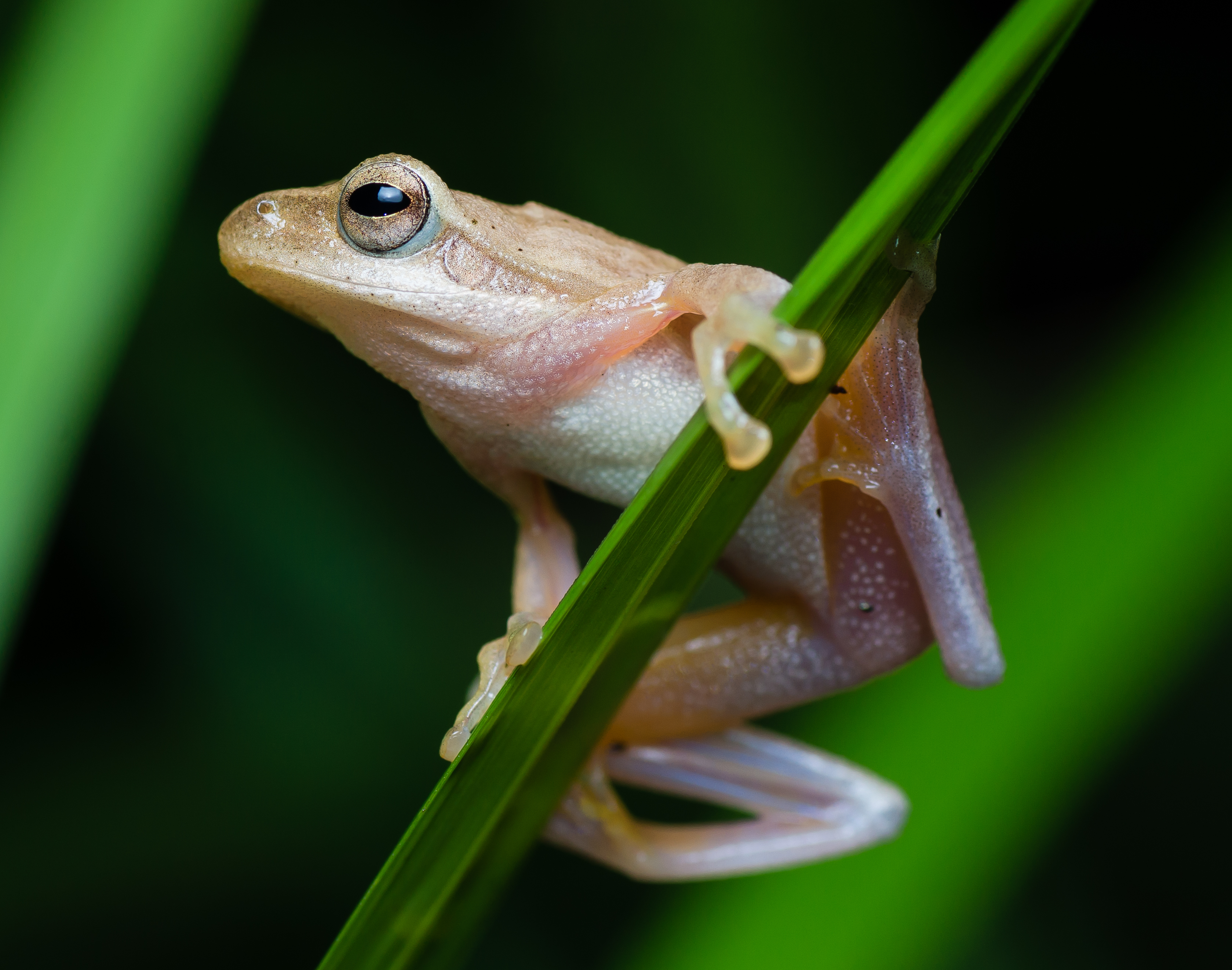 Chiromantis doriae, Doria's Asian tree frog - Phu Khieo Wildlife Sanctuary. Photo by Thai National Parks